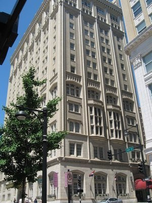 Kansas City Club Building, 1228 Baltimore Avenue, Kansas City, MO 64105